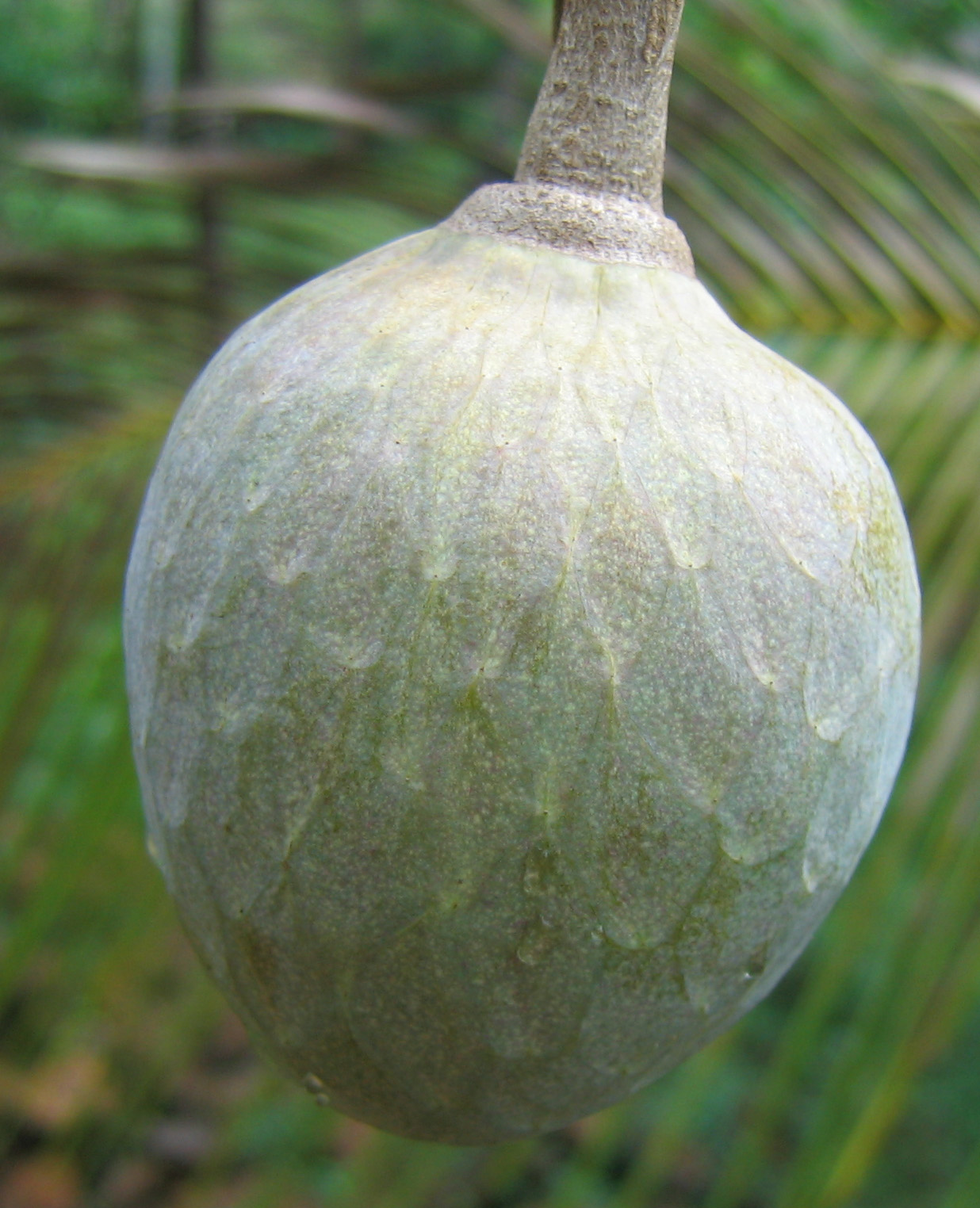 Annona reticulata - ആത്തച്ചക്ക